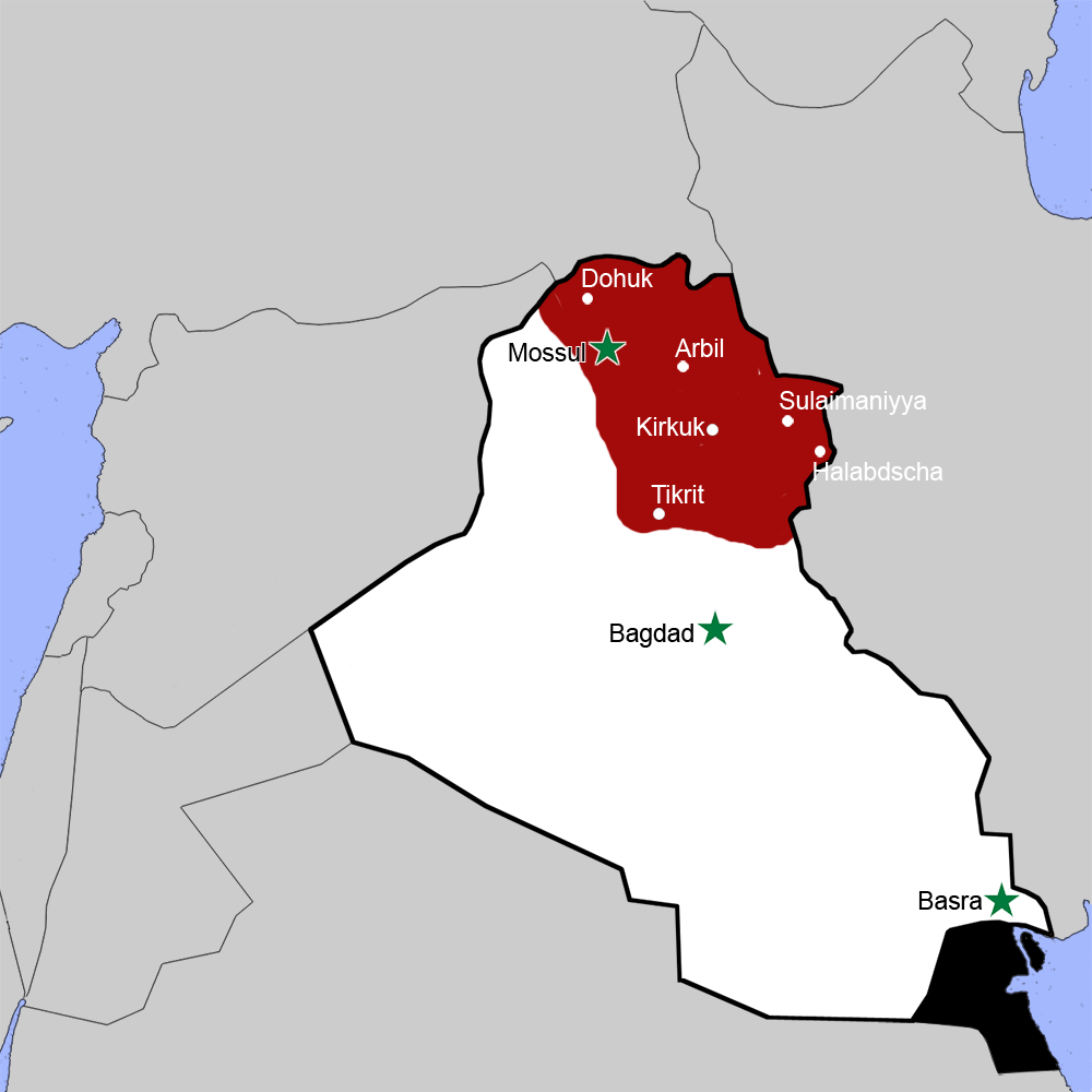 The disputed Mosul territory (red) in 1925 finally became a part of Iraq after a Britisch-Iraqi-Turkish treaty. It was not comptelely identical with the former Ottoman Mosul Vilayet (extension of the Mossul territory according to Putzger Historischer Weltatlas, page 111. Cornelsen, Velhagen & Klasing. Berlin 1979)